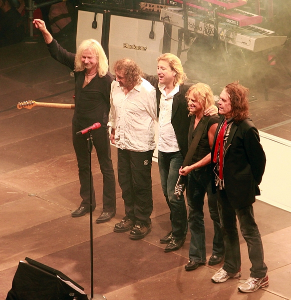 This image shows the german rock band "Karat" after a concert in Pirna, from left: Bernd Römer (lead-guitar), Martin Becker (keyboards), Claudius Dreilich (vocals), Christian Liebig (bass-guitar), Michael Schwand (drums).